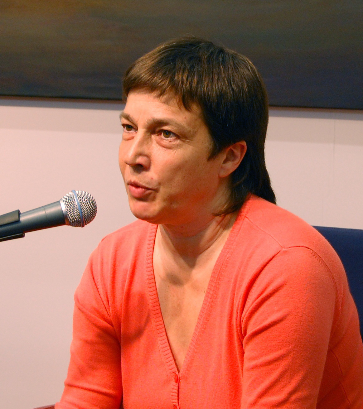 Image from Gothenburg Book Fair 2009